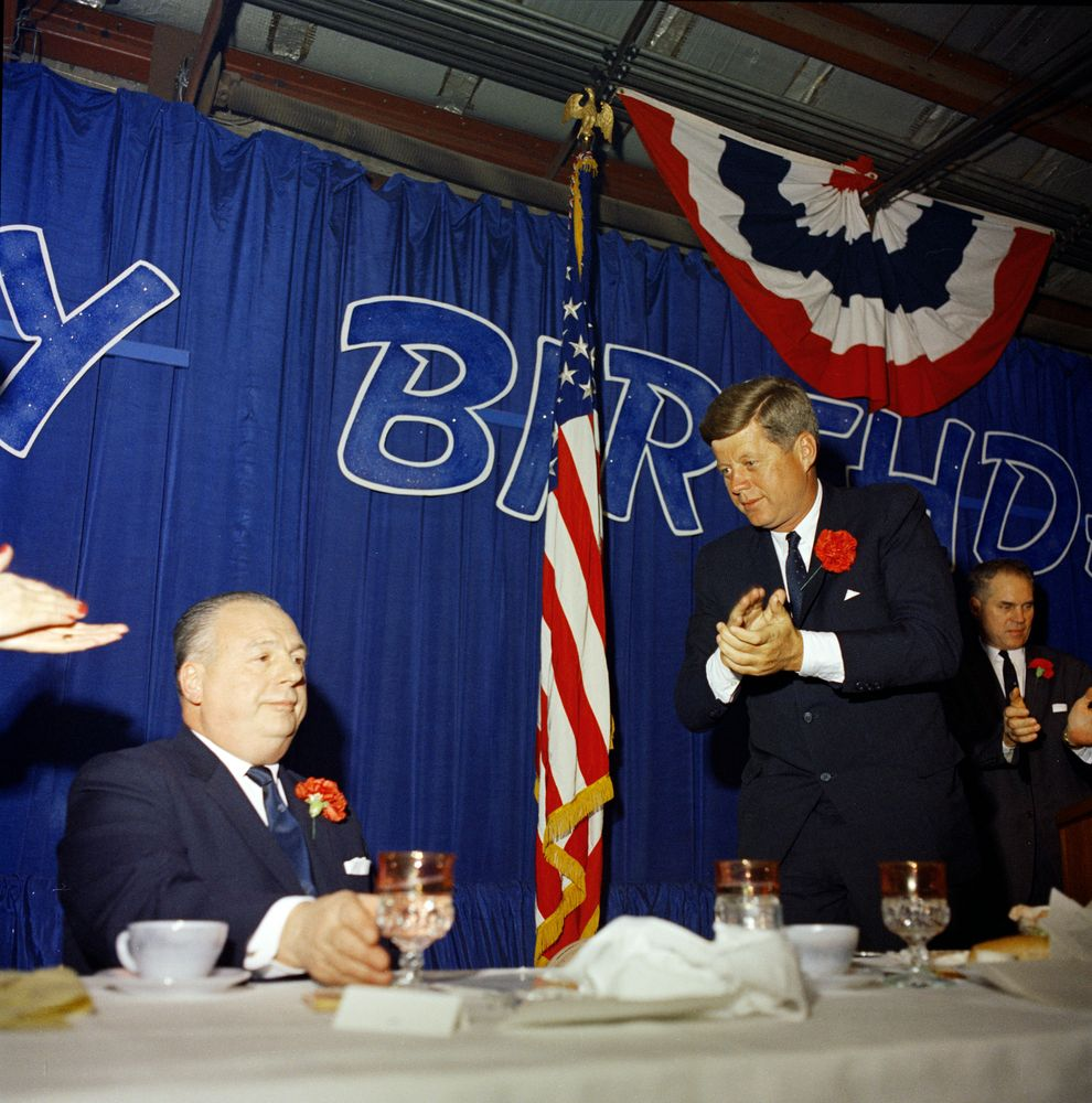 John F. Kennedy applauds during Ohio Governor Michael DiSalle's birthday party at Buckeye Building, Ohio State Fairgrounds, Columbus, Ohio, January 6, 1962. DiSalle is seated at left